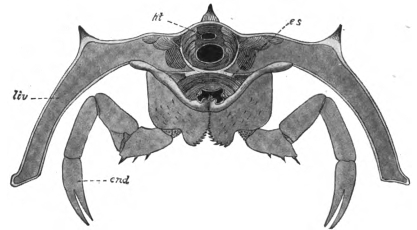 The Eurypterida of New York. Volume 1. New York State Museum Memoir 14, figure 6 Original from: Alpheus Spring Packard: The anatomy, histology, and embryology of Limulus polyphemus. 1880, plate 2